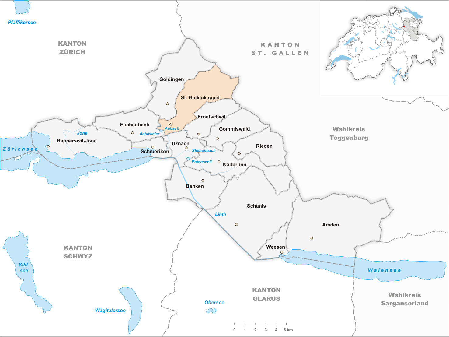 Municipality St._Gallenkappel